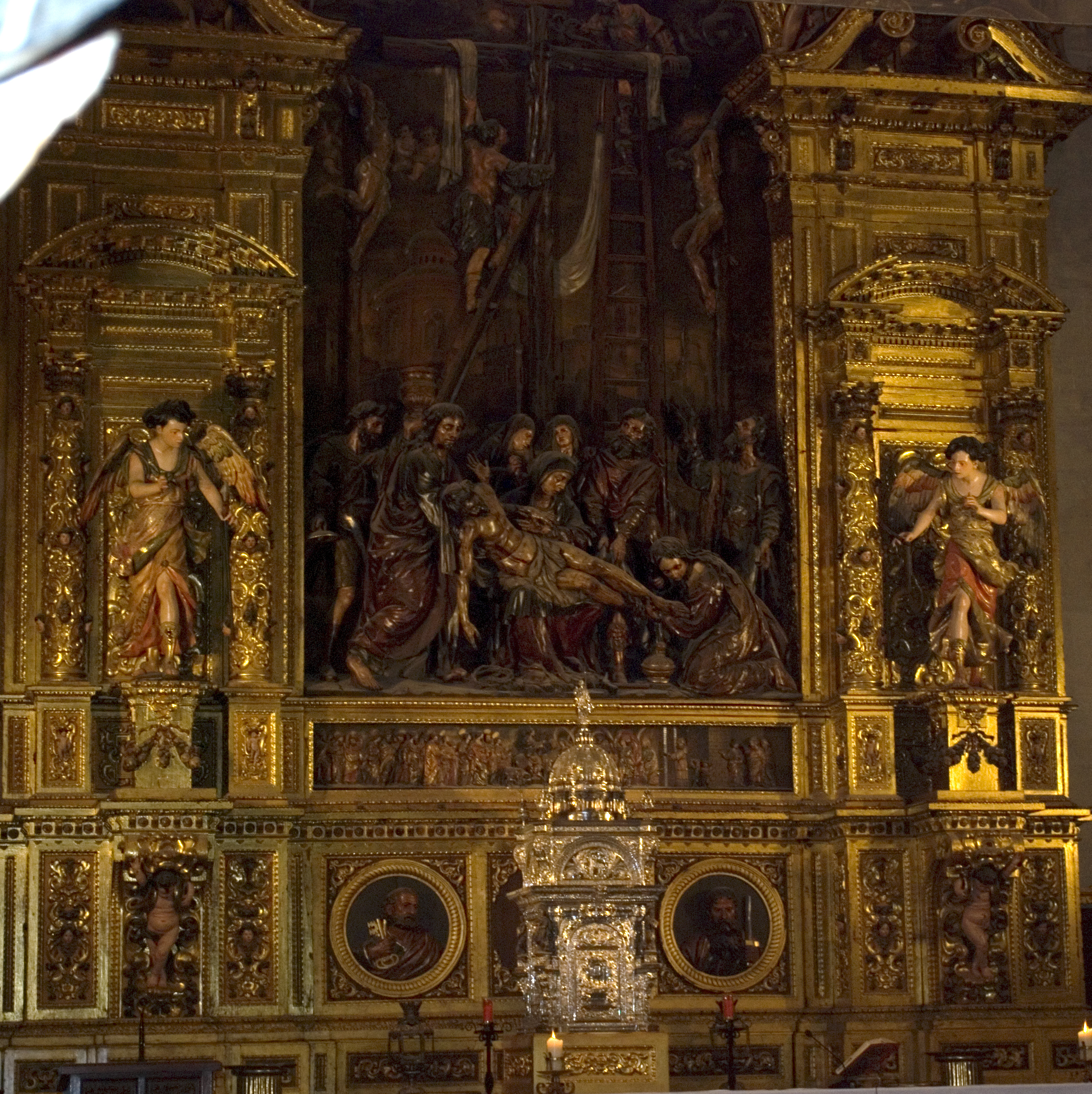 Church of Sagrario, beside Cathedral of Seville